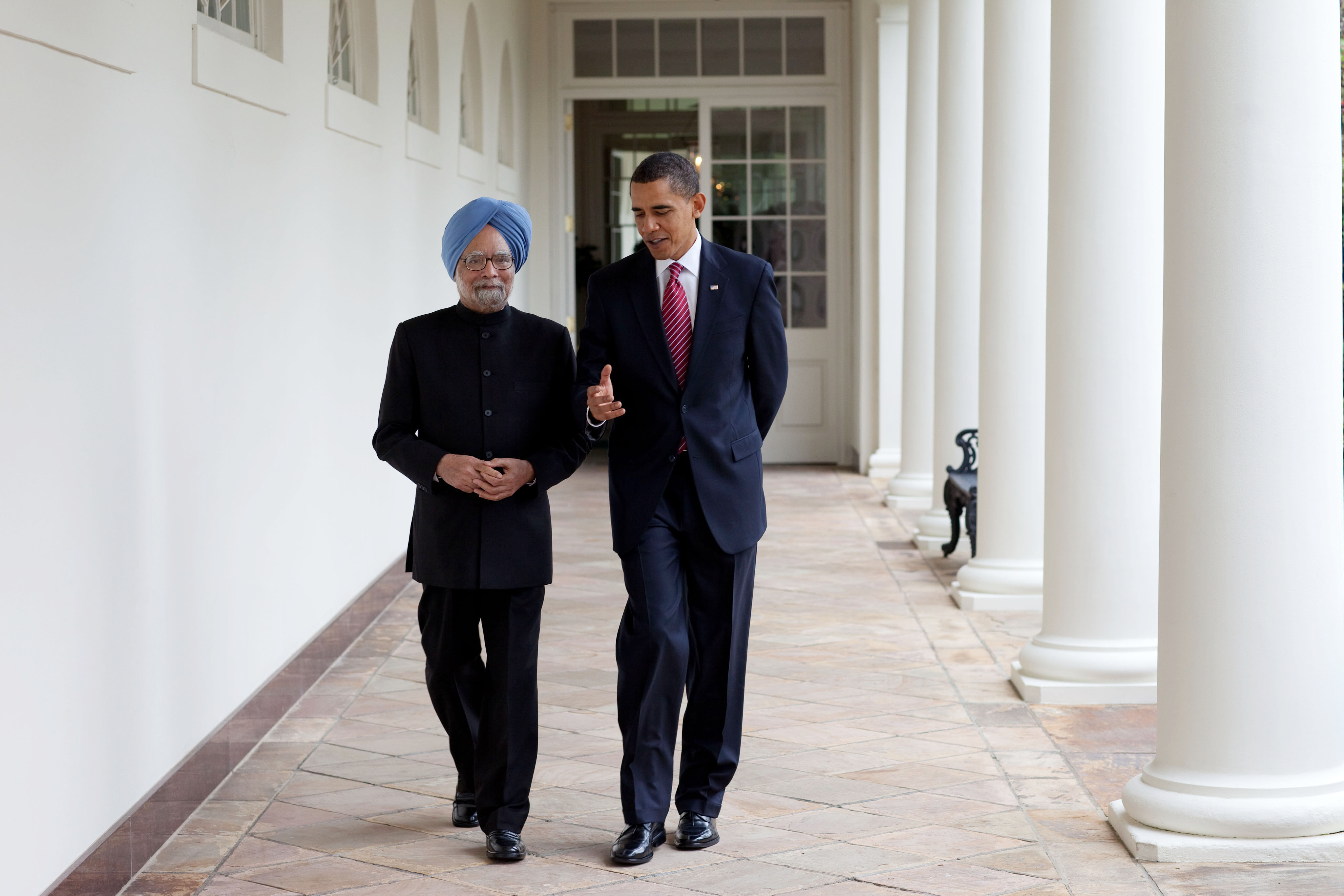 President Barack Obama escorts Prime Minister Manmohan Singh of India along the White House Colonnade to their meeting in the Oval Office, Nov. 24, 2009.